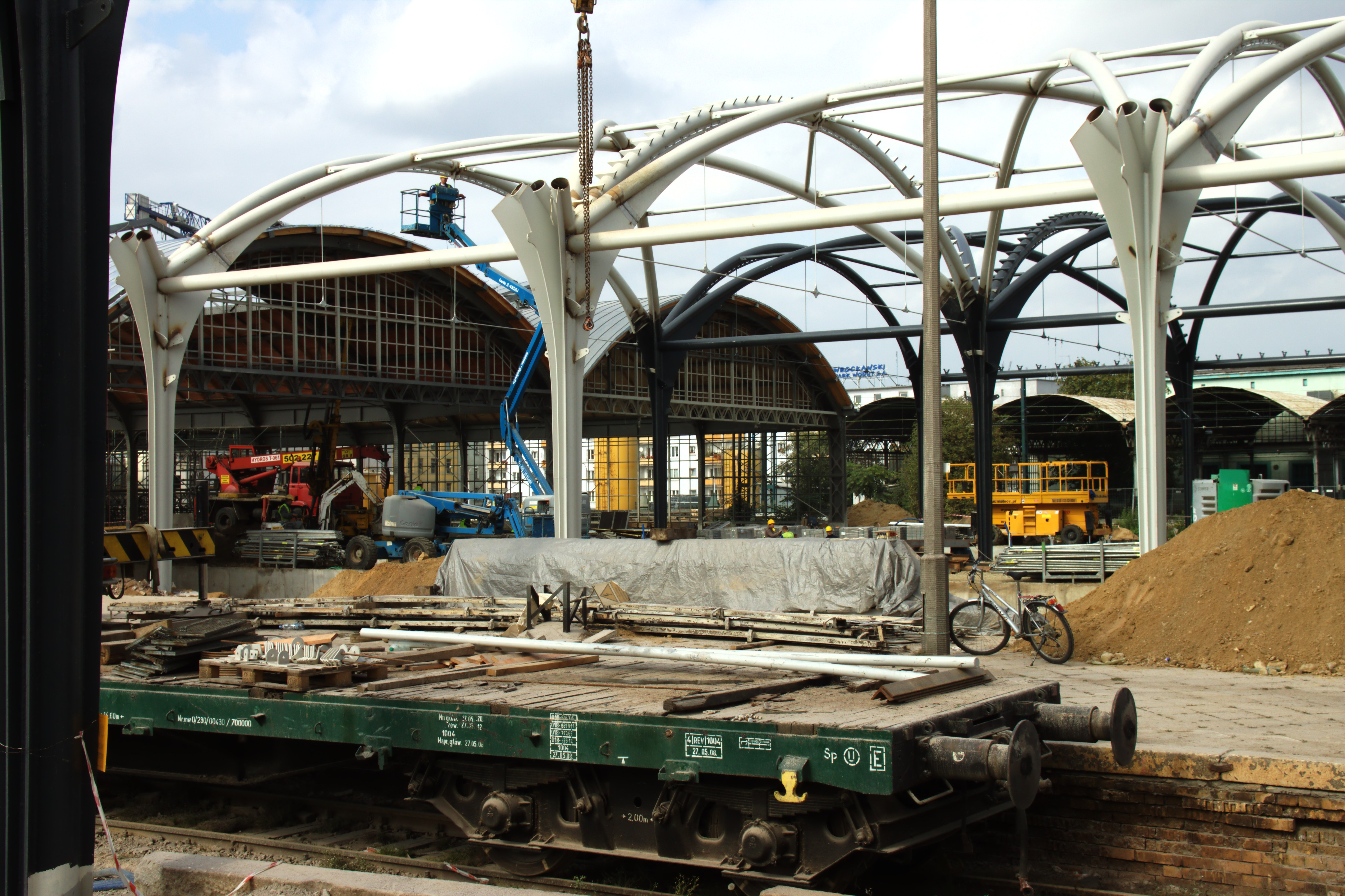 Reconstruction of the platforms at the Wrocław main train station, Poland